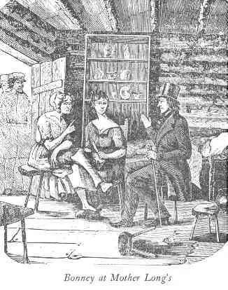 An 1850 woodcut of Edward Bonney, at 38 years old, sitting, wearing a top hat and holding a walking cane, from his self-written book, The Banditti of the Prairies: or, The murderer's doom, a tale of Mississippi Valley and the Far West. Bonney was a bounty hunter and amateur detective, who posed as a counterfeiter, in 1845, to infiltrate, a faction, of the "Banditti of the Prairie" and track down the murderers of Colonel George Davenport.